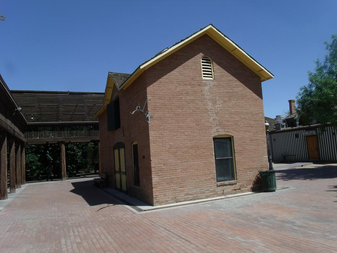 The Bouvier Mule Barn, (often mistakenly referred to as "The Teeter Carriage House"), was built in 1899 by Leon Bouvier for his own use. The Bouvier Mule Barn and The Bouvier House were both built by and belonged to Leon Bouvier and was sold to Teeter in 1911. Both of these buildings are now part of Phoenix's Heritage Square